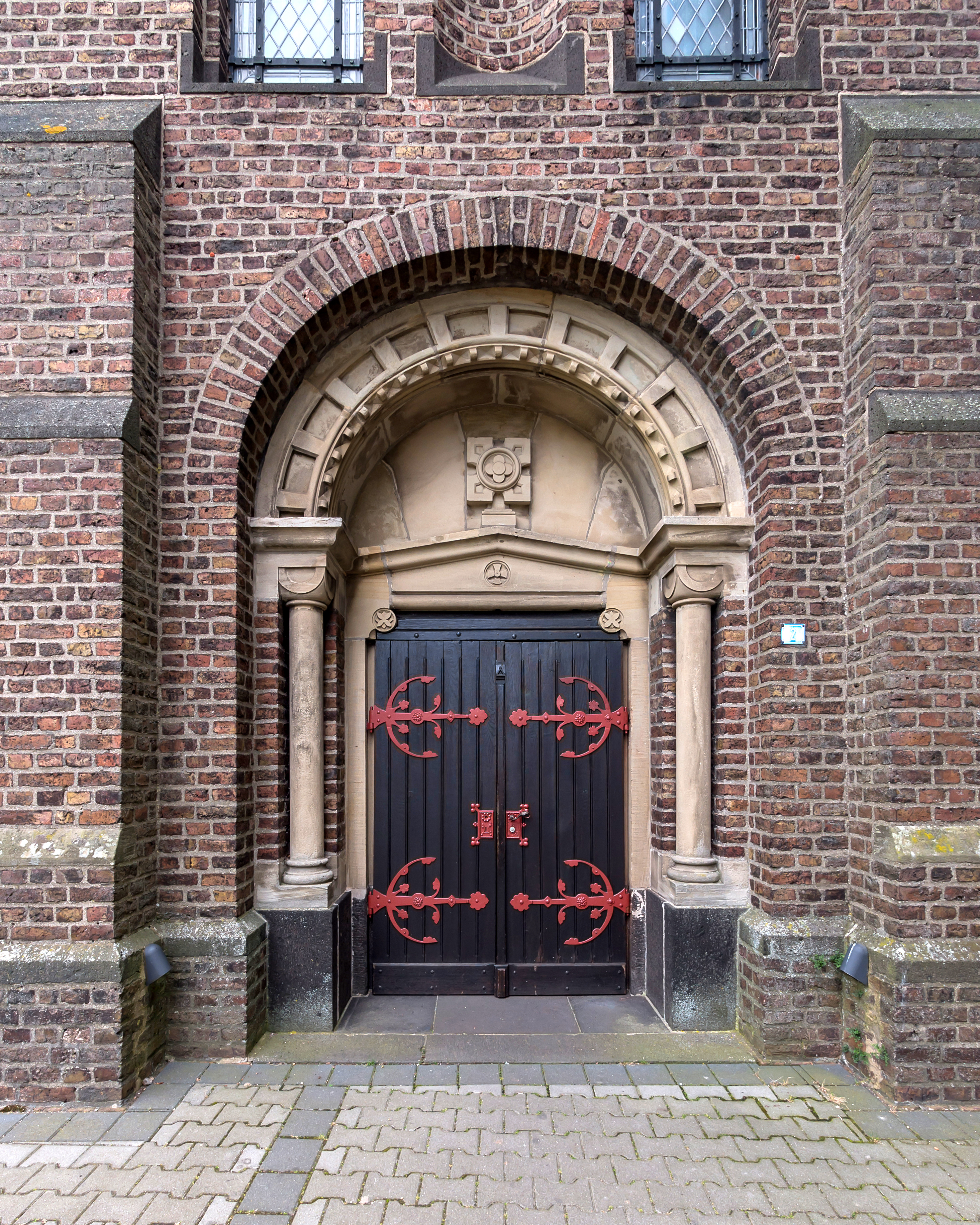 Kirchtroisdorf - Schwarzer Weg 2 Kath. Pfarrkirche IIThis is a photograph of an architectural monument., no. 24